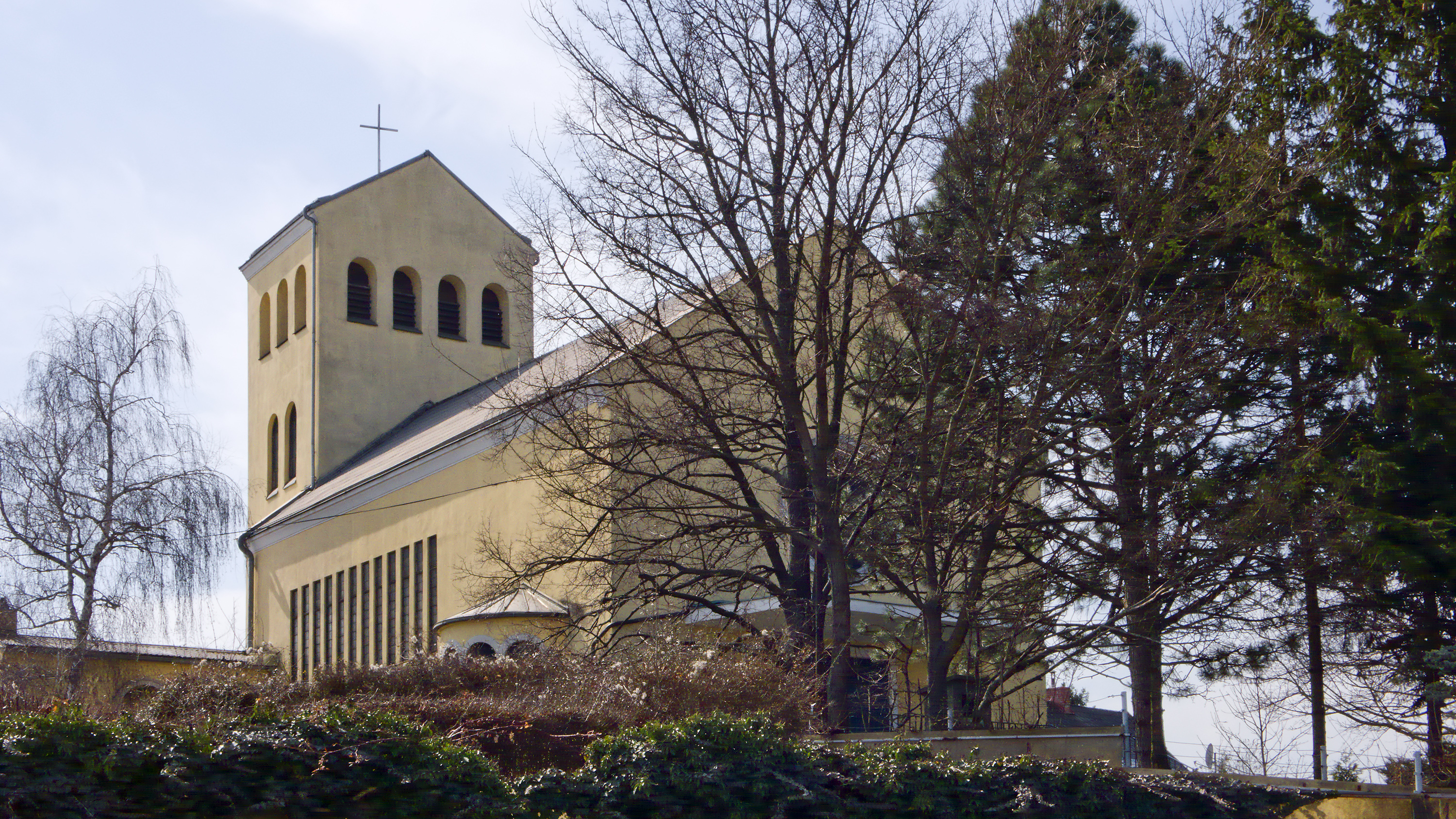 Schafbergkirche in Vienna Hernals